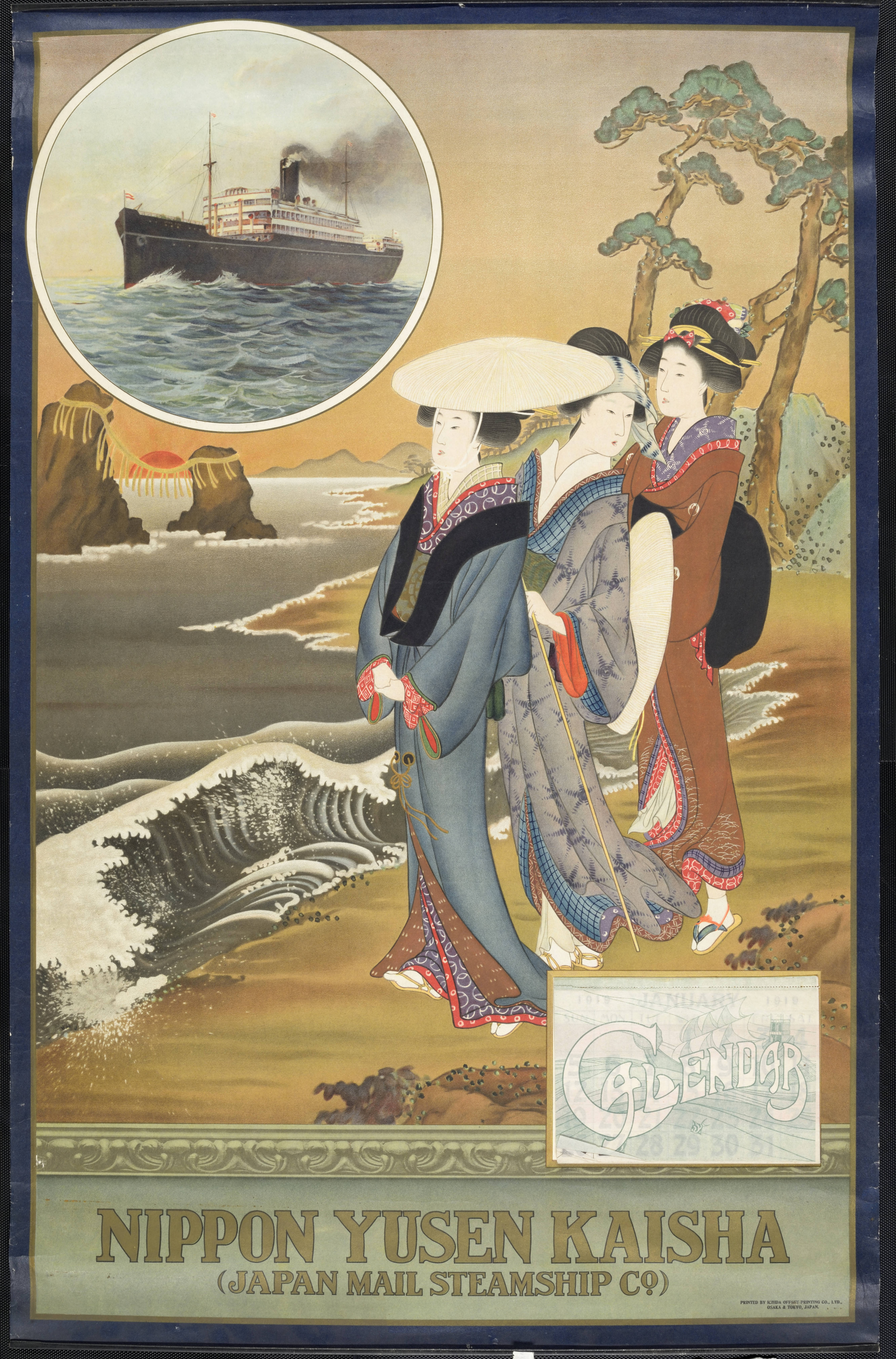 aee1a2: a$?aa13ae'ae